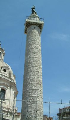 Trajan's Column – detail (picture taken in Rome)